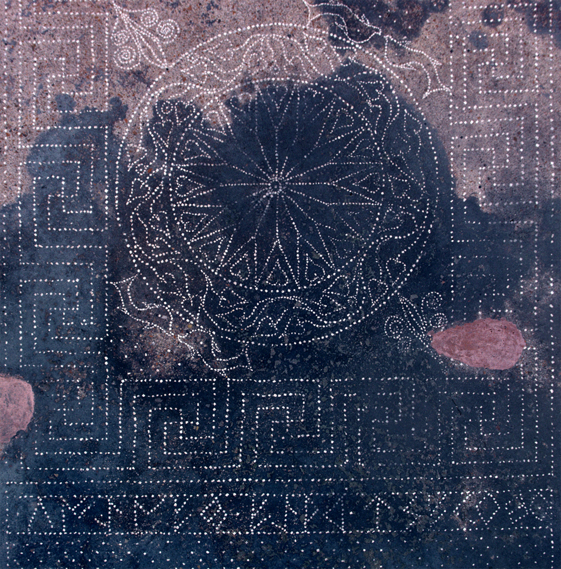 Ancient mosaic in La Caridad site, Valle del Jiloca, Teruel, Spain